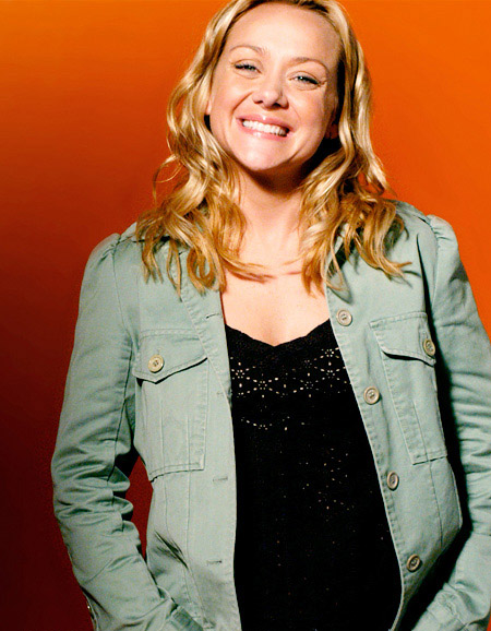 Nicole Sullivan photographed by Eric Schwabel